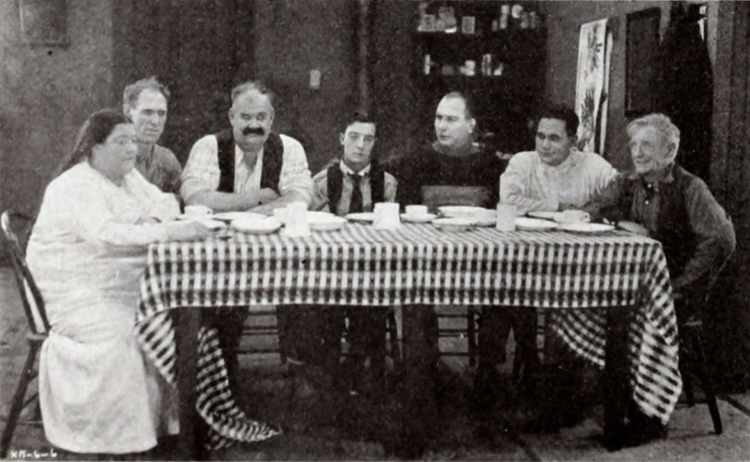 Still from the American comedy film My Wife's Relations (1922) with Buster Keaton, on page 60 of the May 20. 1022 Exhibitors Herald.